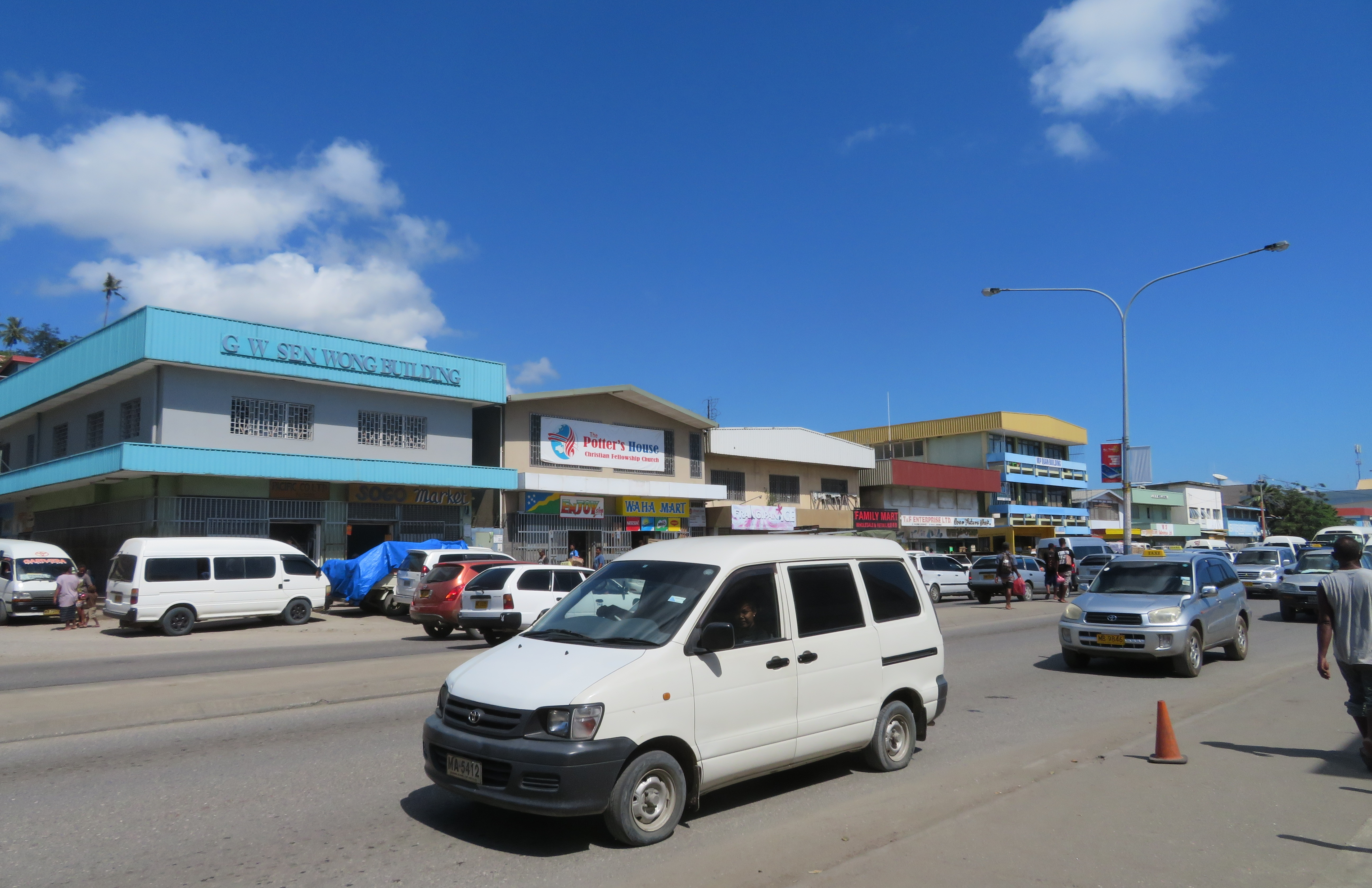 Mendana Avenue, Honiara, Solomon Islands